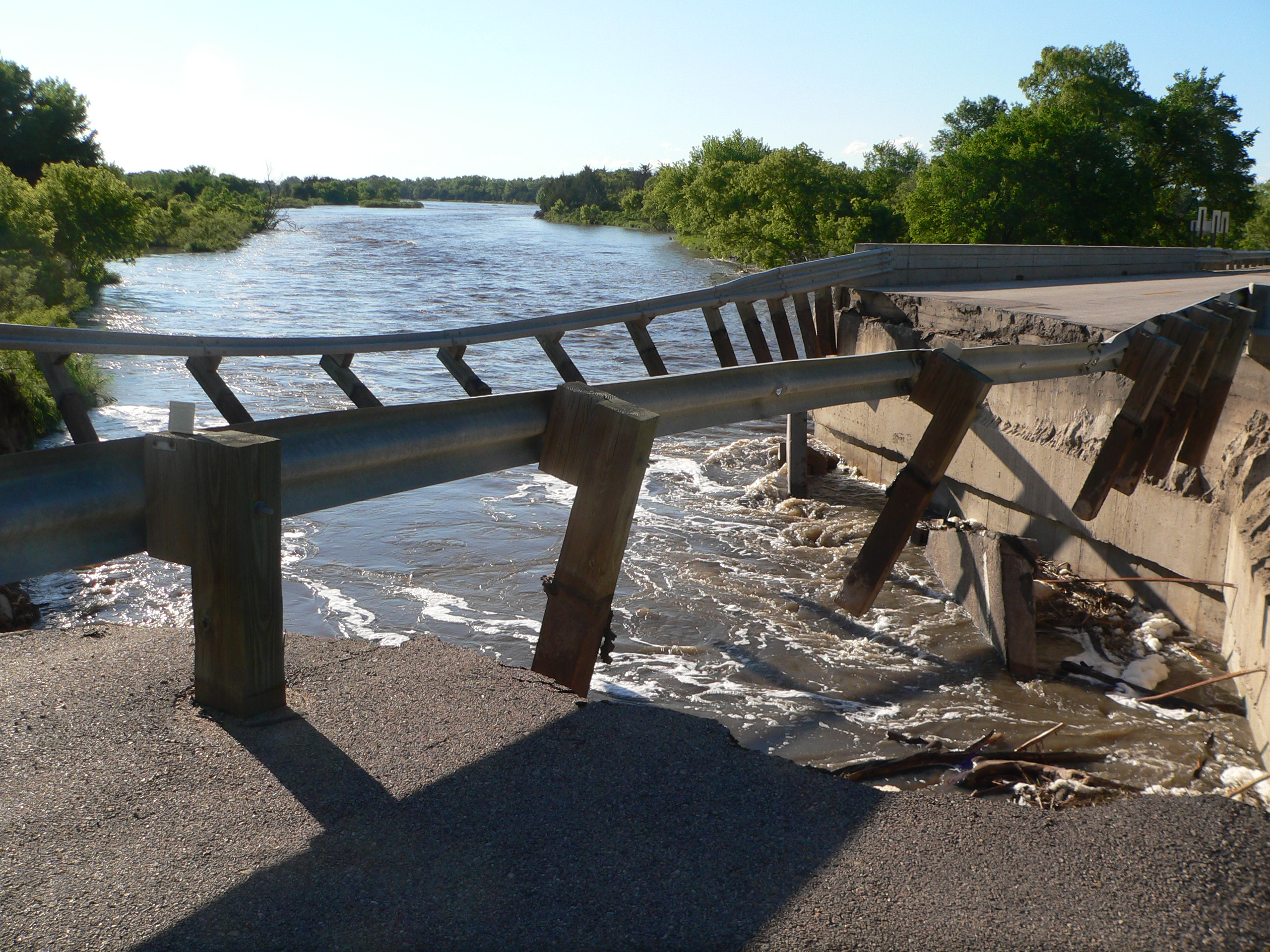 Flood-damaged bridge carrying U.S. Highway 183 across North Loup River at Taylor, Nebraska. Photo taken from south bank; river flows from west to east at this point.